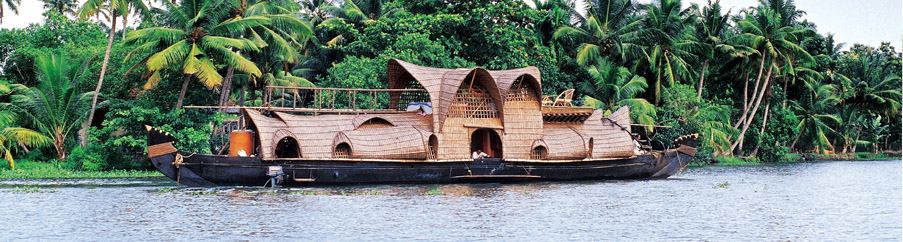 A Kettuvallam Houseboat of Kerala - An upperdeck